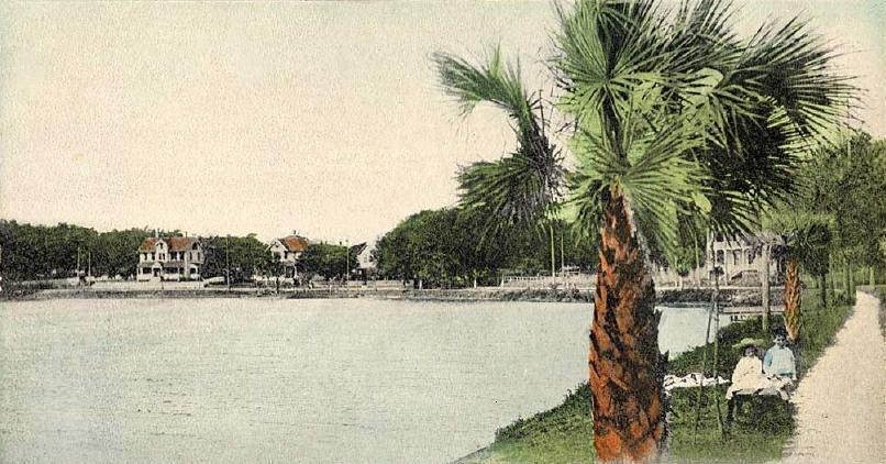 Lake Lucerne, Orlando, FL; from a c. 1905 postcard published by E. C. Kropp, Milwaukee, Wisconsin.